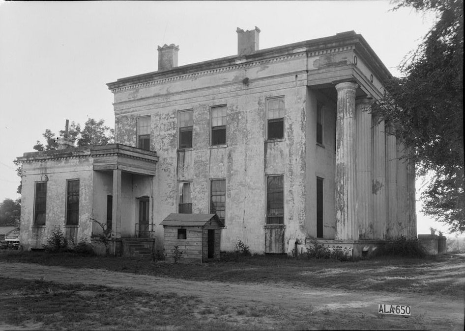 Stone-Young-Baggett House, County Road 54 (Old Selma Road), Montgomery, Montgomery County, AL. EAST ELEVATION (SIDE) AND NORTH FRONT.